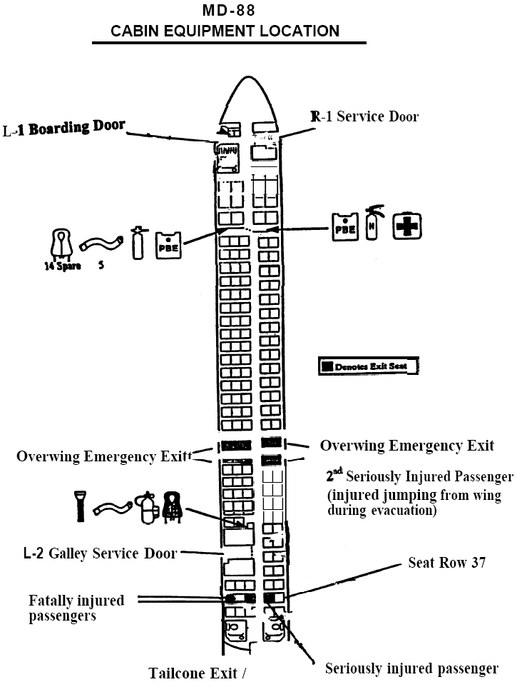 Map of N927DA of Delta Air Lines Flight 1288